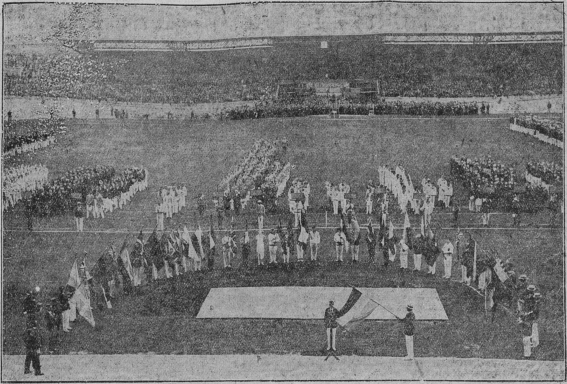 1928 Summer Olympics opening ceremony